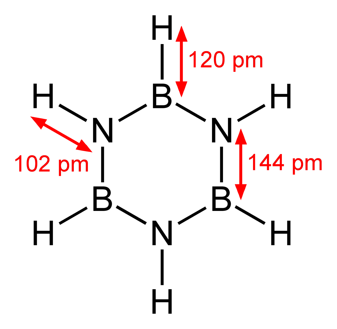 Structure and dimensions of borazine